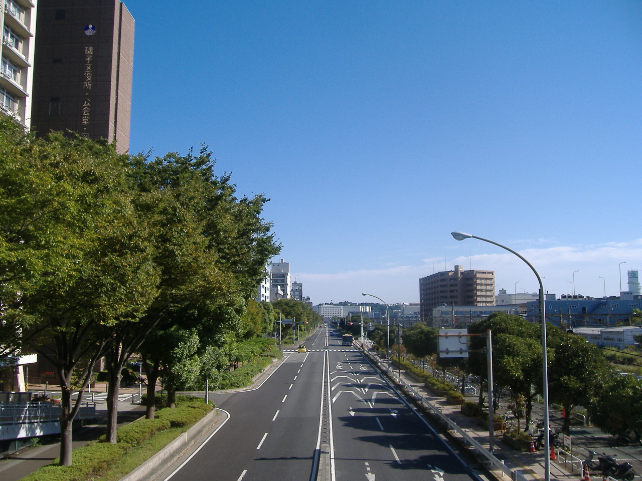 Isogo industry road (Yokohama, Japan)